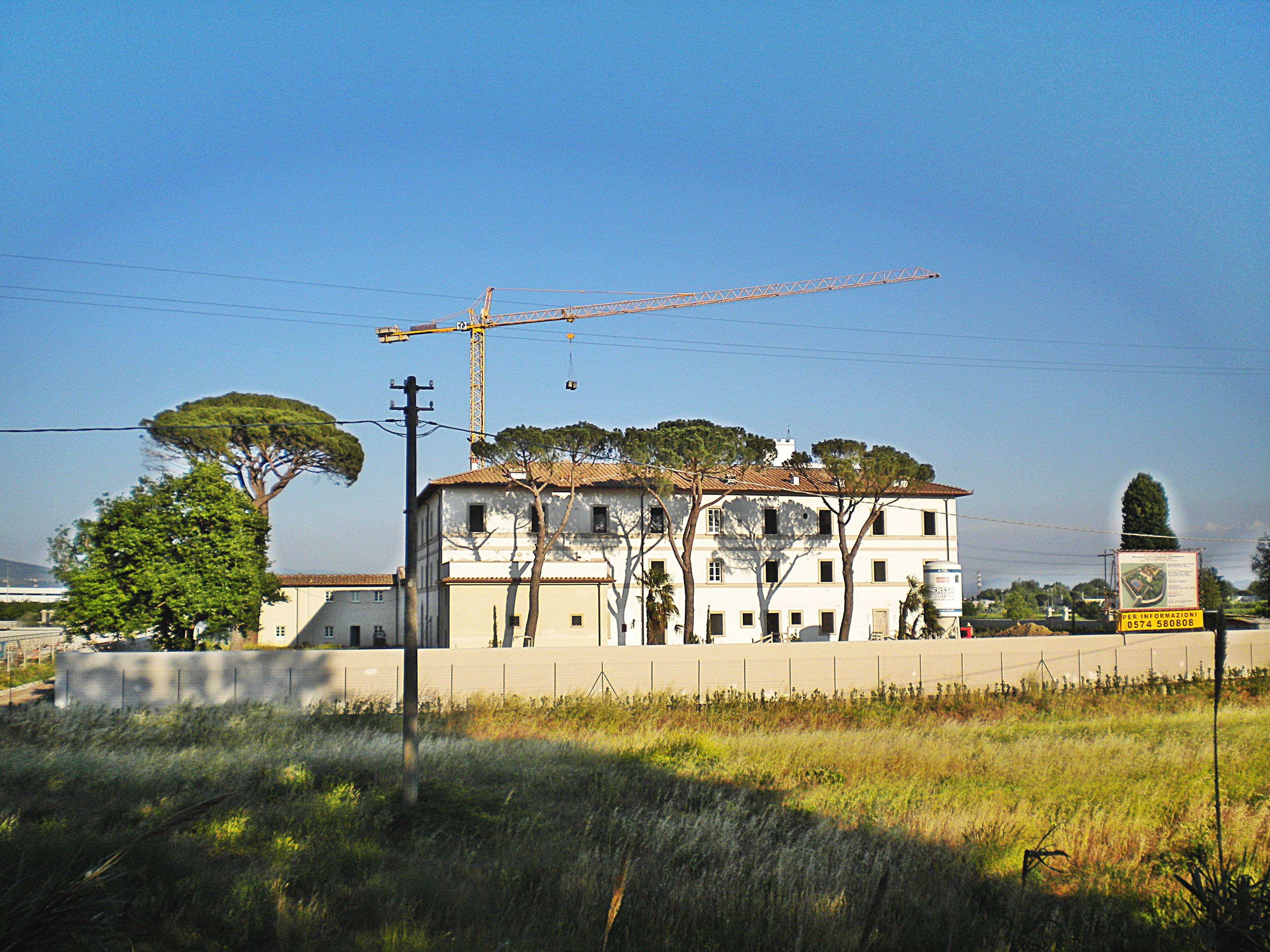 restructuration